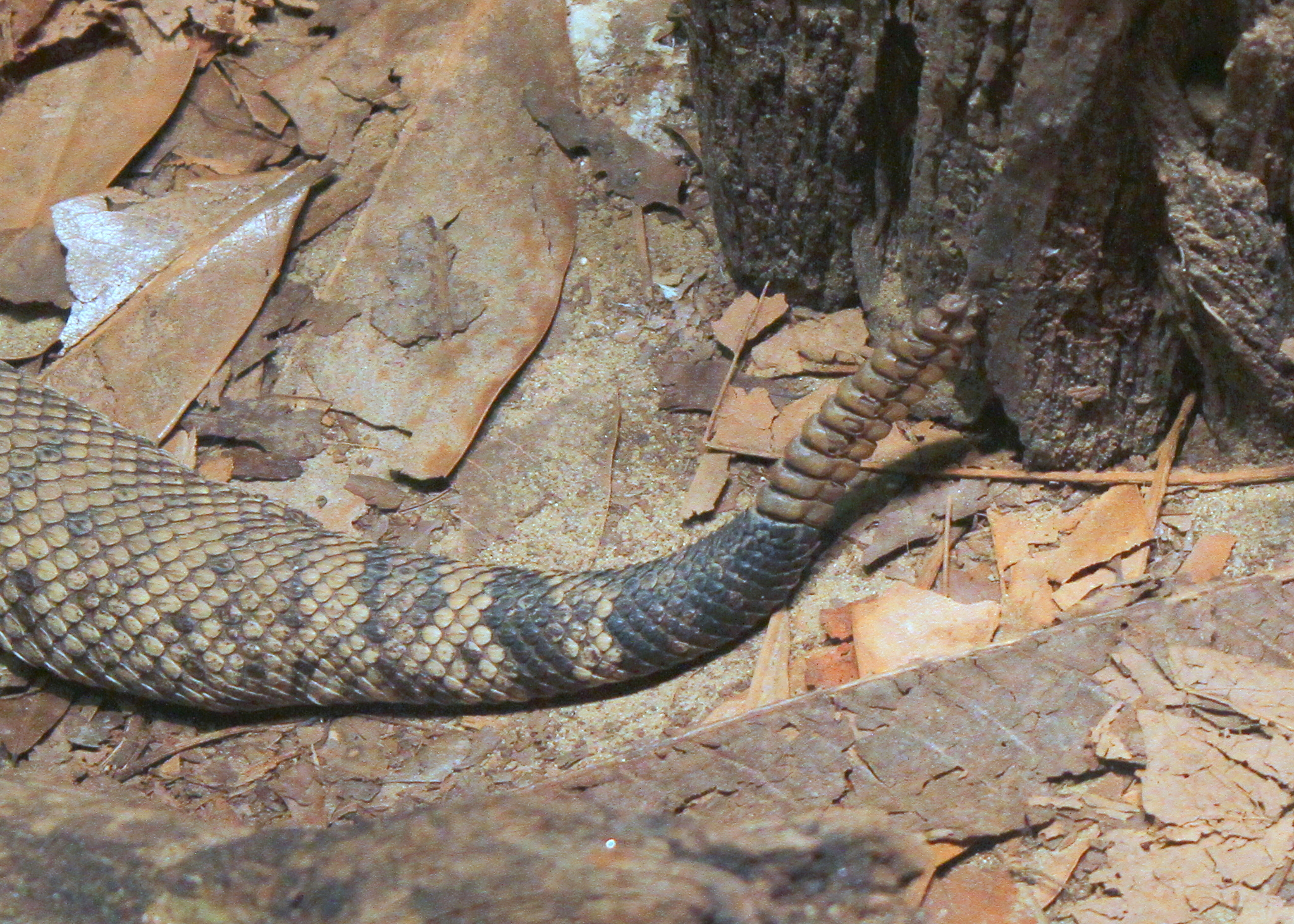 Taken at the Cincinnati Zoo and Botanical Garden.